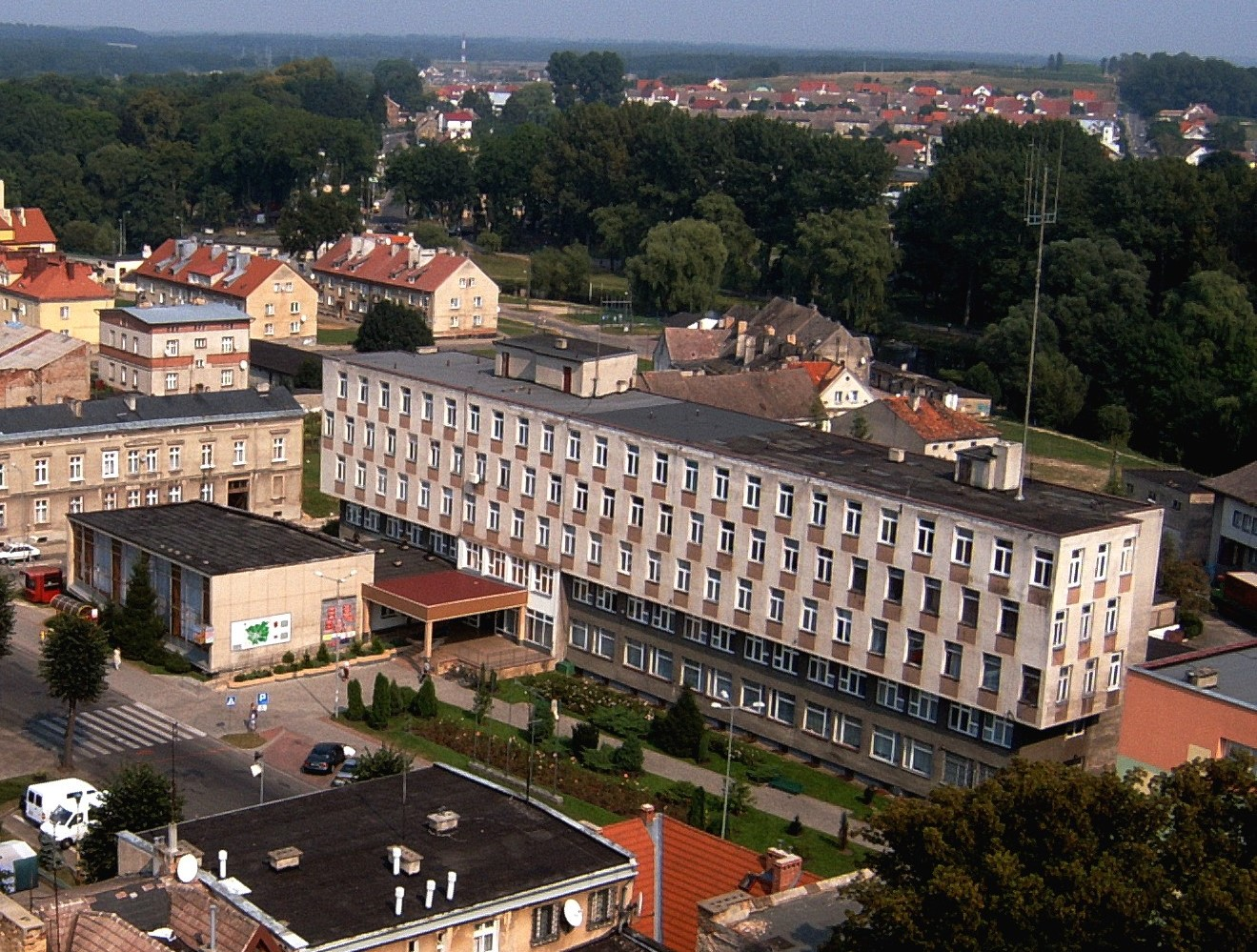 Town Hall in Gryfice, Poland